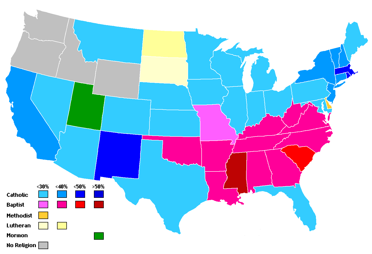 Plurality religious denomination by state, 2001